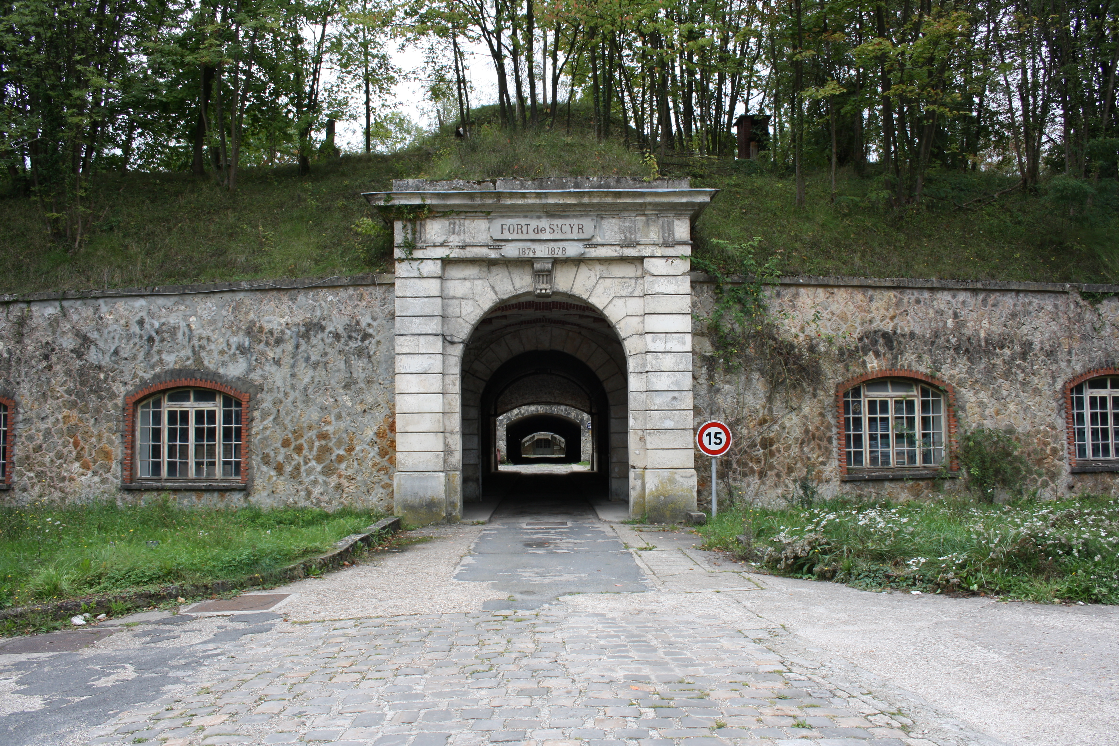 Fort de Saint-Cyr in Montigny-le-Bretonneux, France